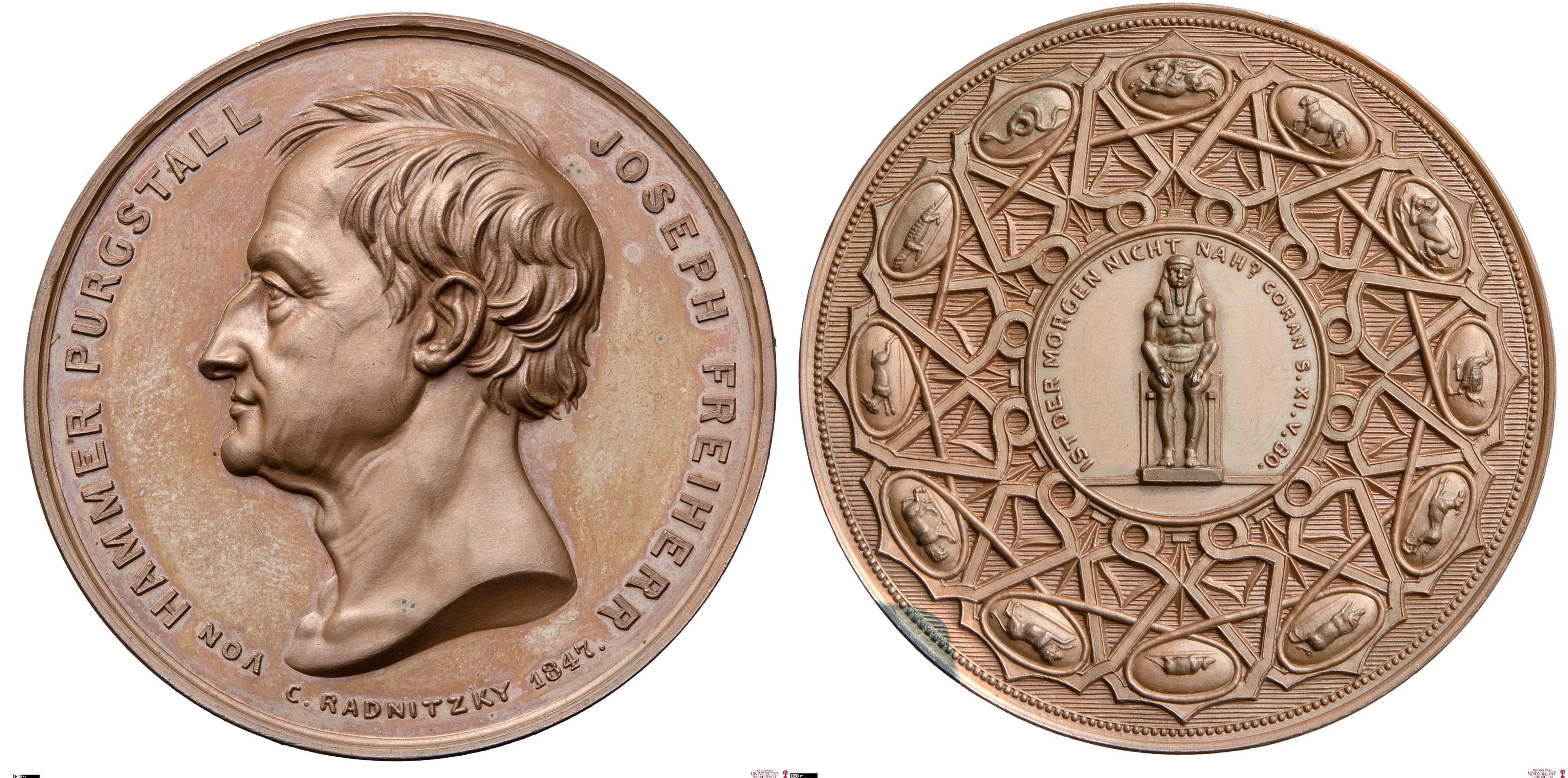 The front side depicts a bust of Jospeh von Hammer-Purgstall surrounded by his name, the signature of the engraver and year of coinage. The back side shows in a circle a Coloss of Memnon enclosed by a quote of the Koran in German. The circle is surrounded by oriental patterns and 12 ovals picturing animals. Not shown is an ancient Greek quote placed on the rim of the medal (cf.